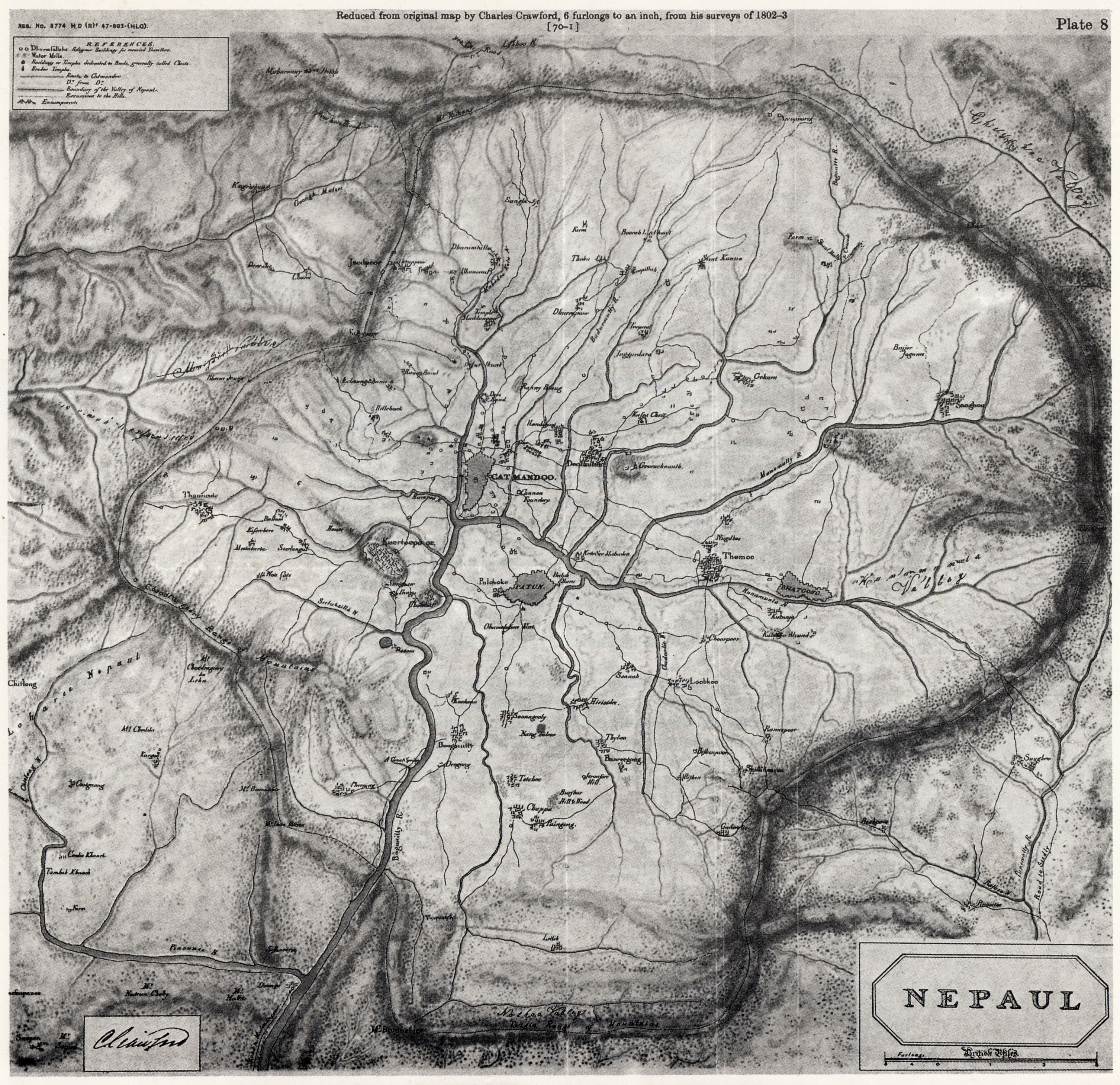 Scan of map of Nepaul, present-day Kathmandu Valley and surrounding areas in Nepal, made by Charles Crawford in 1802-03.